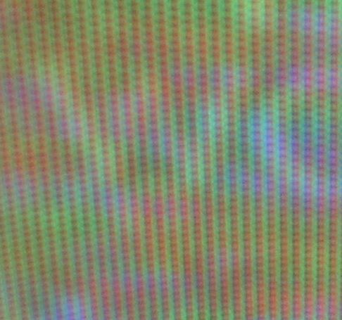 Close-up of a TV screen taken by Väsk